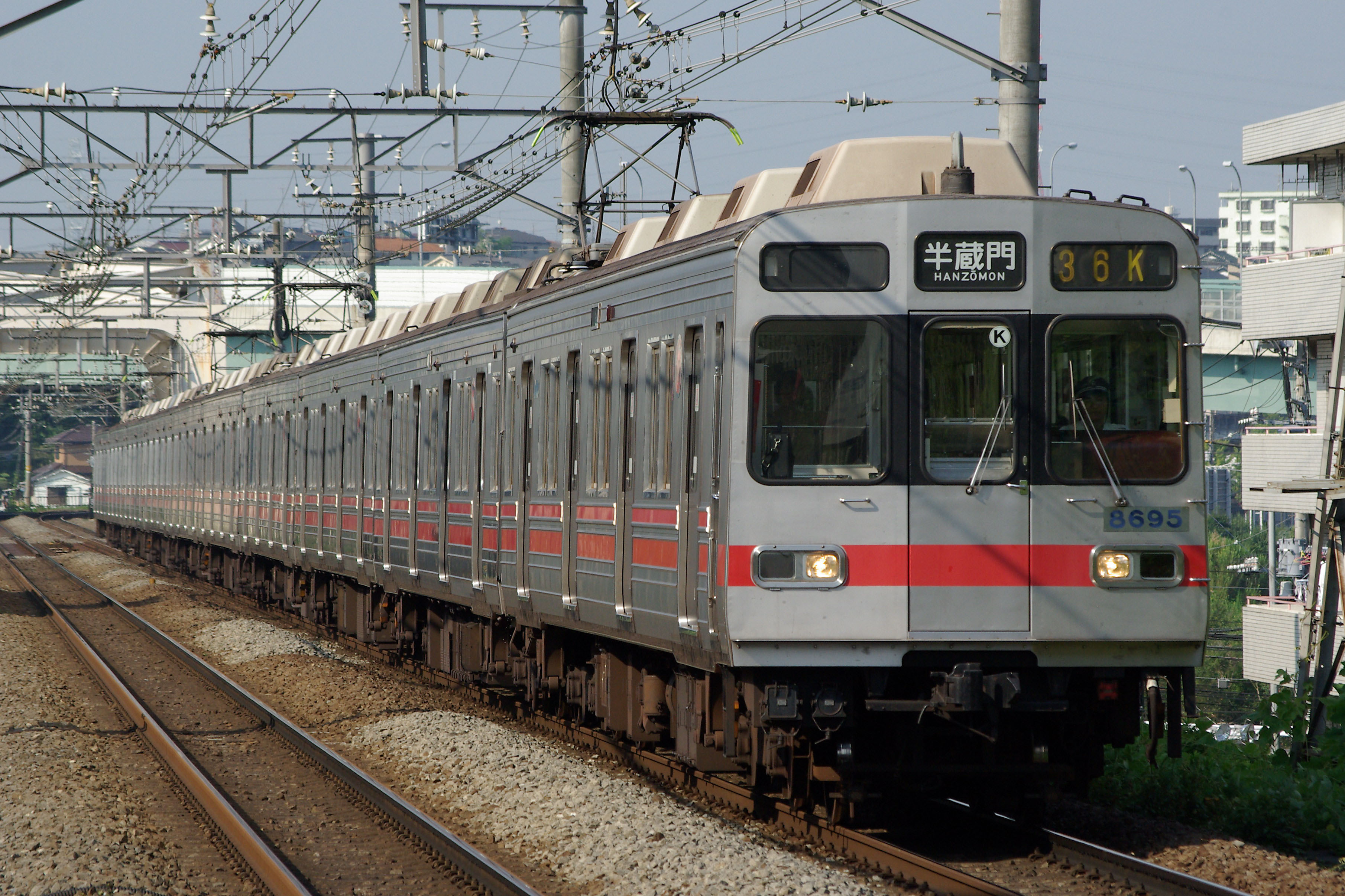 Tokyu 8590 series (set 8695F)train approaching Ichigao Station on the Tōkyū Den-en-toshi Line